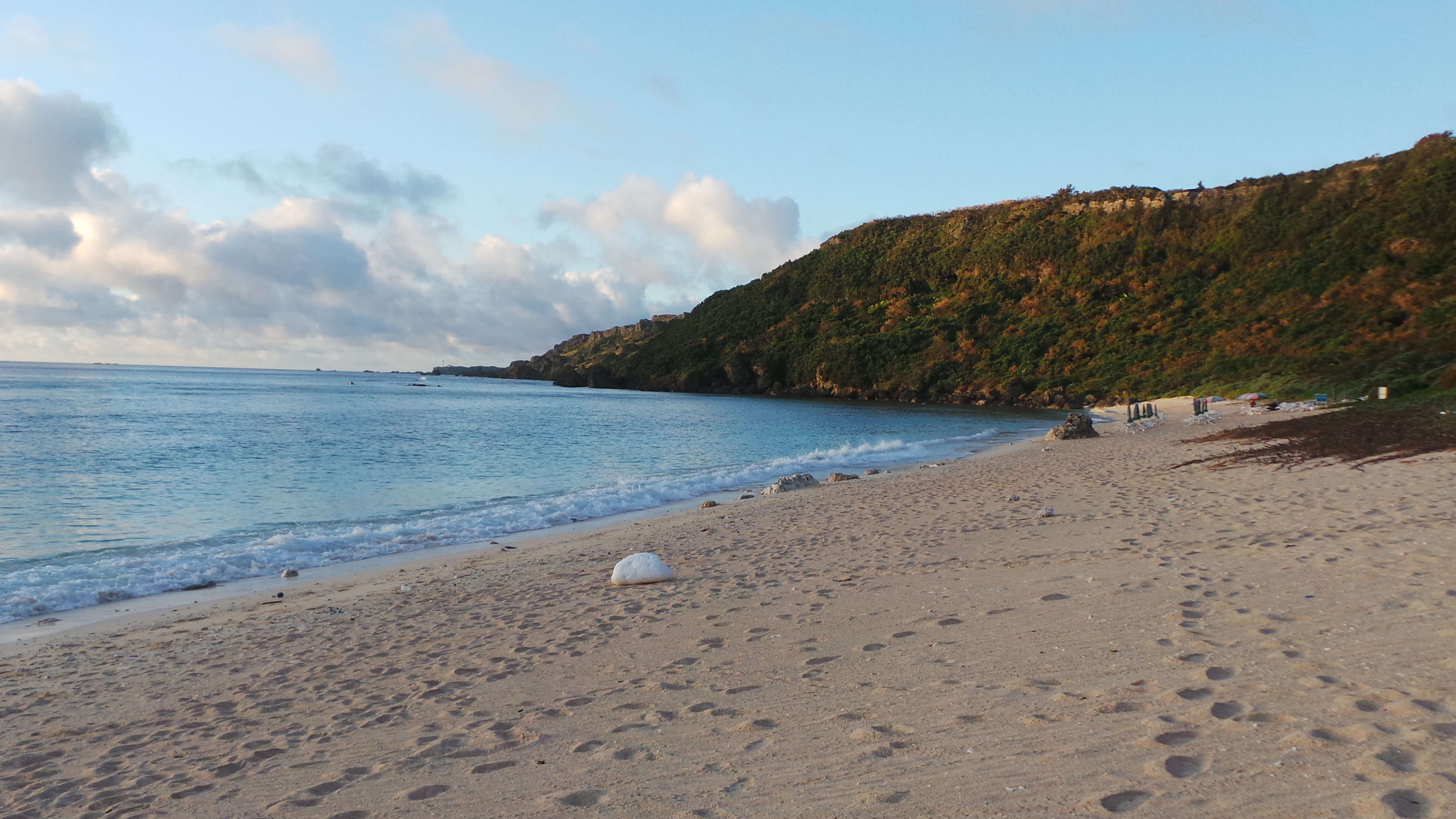 Yoshino beach